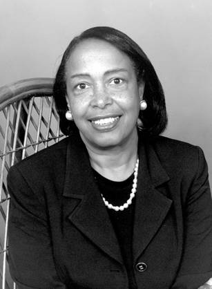 Changing the face of Medicine